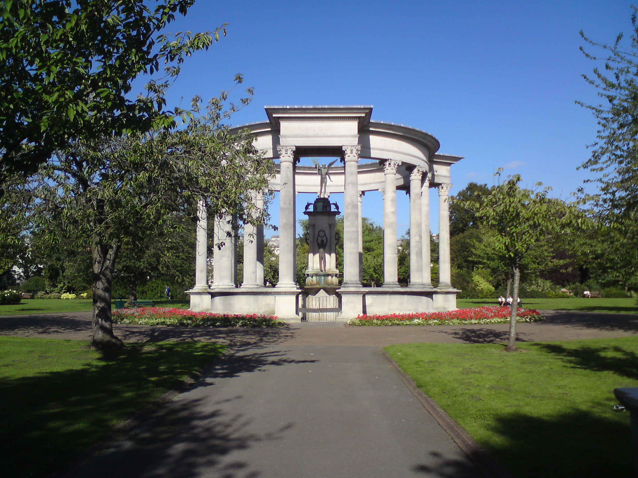 Welsh National War Memorial, Cathays Park, near Cardiff University Cathays Park Campus.